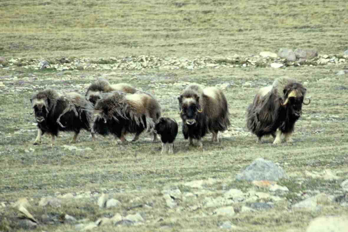 Muskoxen on Victoria Island, Nunavut Territory, Canada